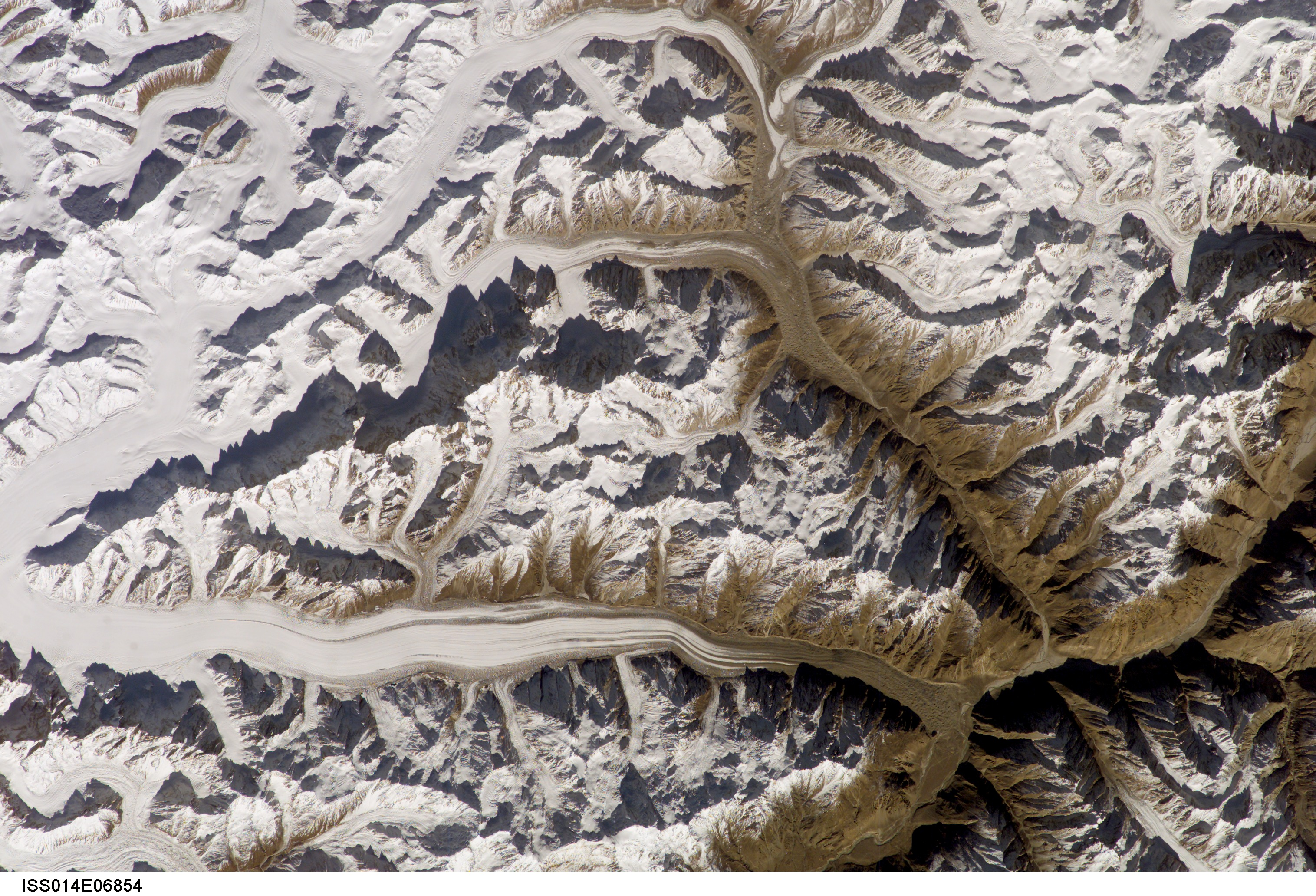 ISS-view from southwest to northeast: Baintha Brakk aka the Ogre (7285 m) on the left and Latok group (7151 m) [still on the left of the centre] in the Panmah Muztagh of the Karakorams above the Biafo glacier. Braldu-valley is on the right, leading to the Baltoro glacier. On top right you can spot Trango-group (Nameless Tower can be distinguished by its shadow). An adjacent picture to the west is here.